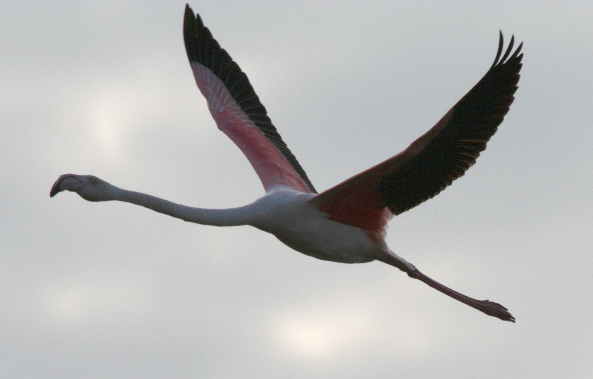 Greater Flamingo Phoenicopterus roseus in flight. Fot. by JMalik, Camargue marshes n.Arles, France 2006